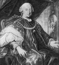 Philipp von Cobenzl (1712-1770),nobleman and diplomat